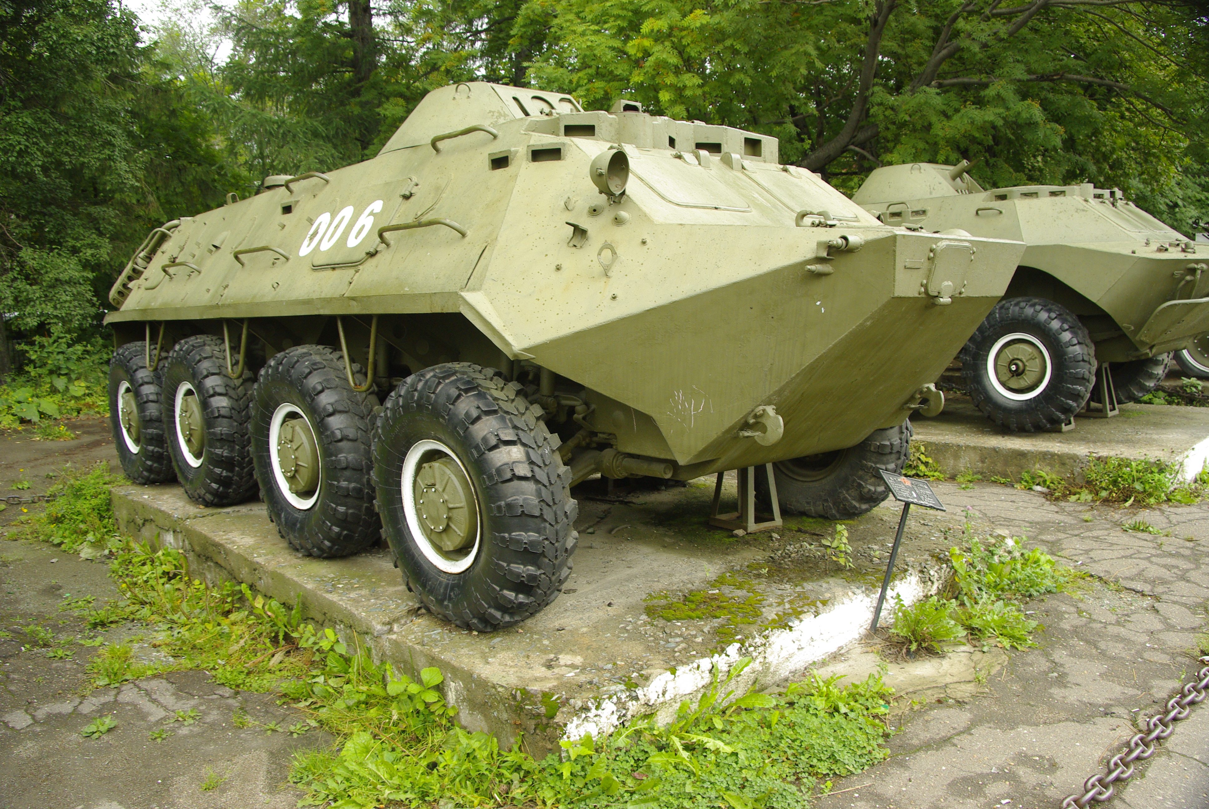 Old Soviet tanks in Yuzhno Sakhalinsk.